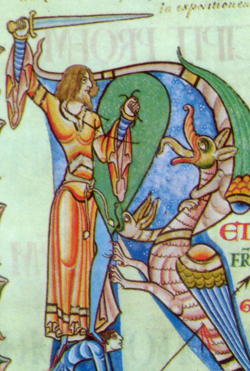 Detail of historiated initial R from the frontispiece of a 12th-century manuscript of St. Gregory's Moralia in Job, Dijon, Bibl. Municipale, MS 2